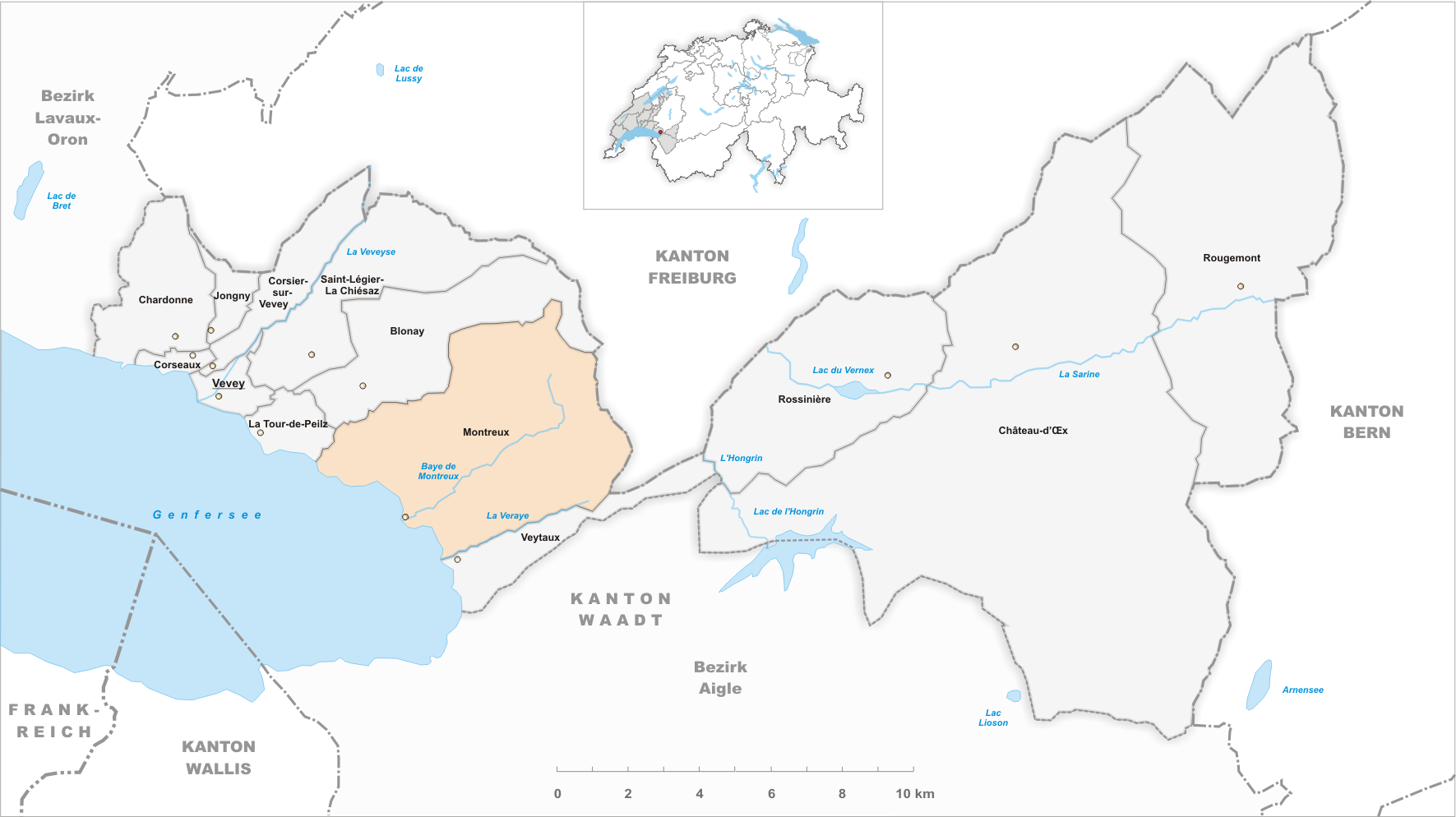 Municipality Montreux